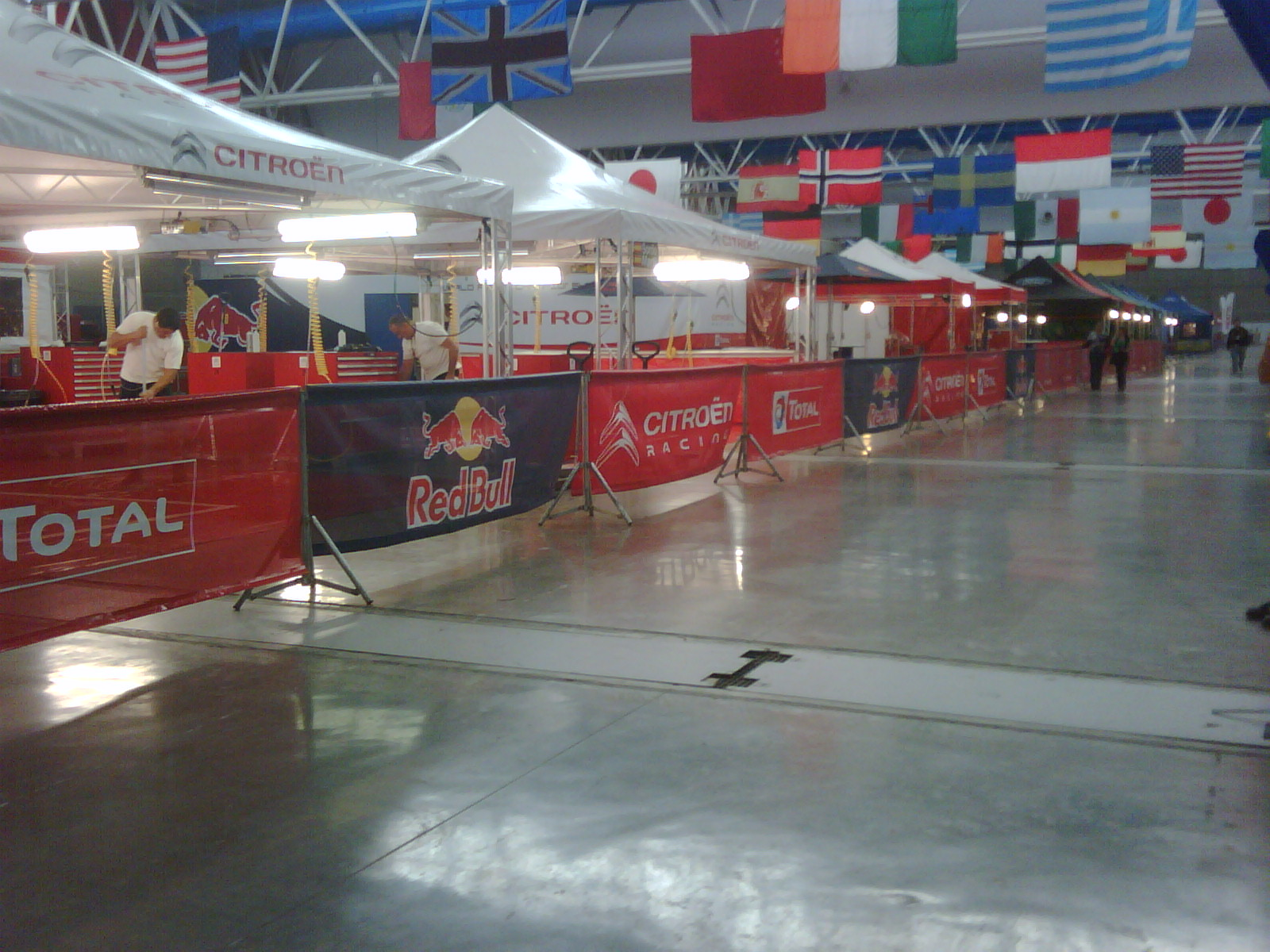 The installation on the poliforum where the cars are at.